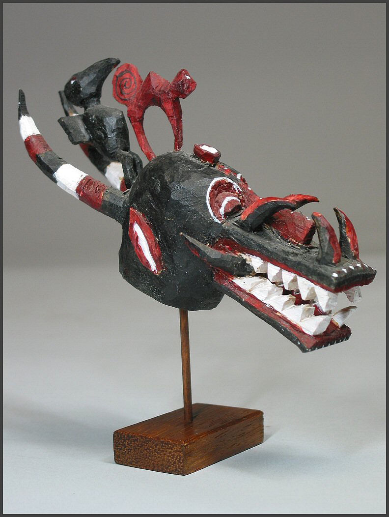 Another privately owned mask. Again, this is not the mask displayed in the Art Institute of Chicago, but features a similar design and history as every other mask of the sort.